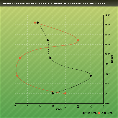 PChart drawScatterSplineChart